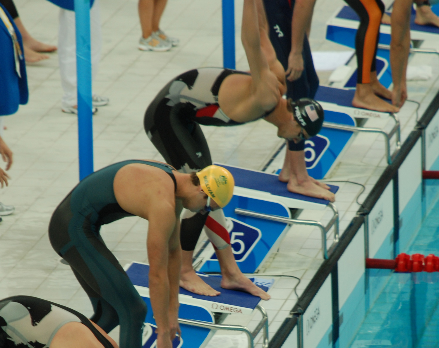 Michael Phelps starting the 4x100m relay at the Beijing olympic games, august 11th 2008 at the Watercube